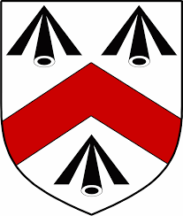 The Walsh crest, without banner or swan